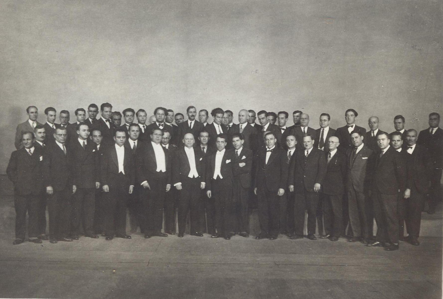 Opera Orchestra, Konstantin Sagaev and conductors.